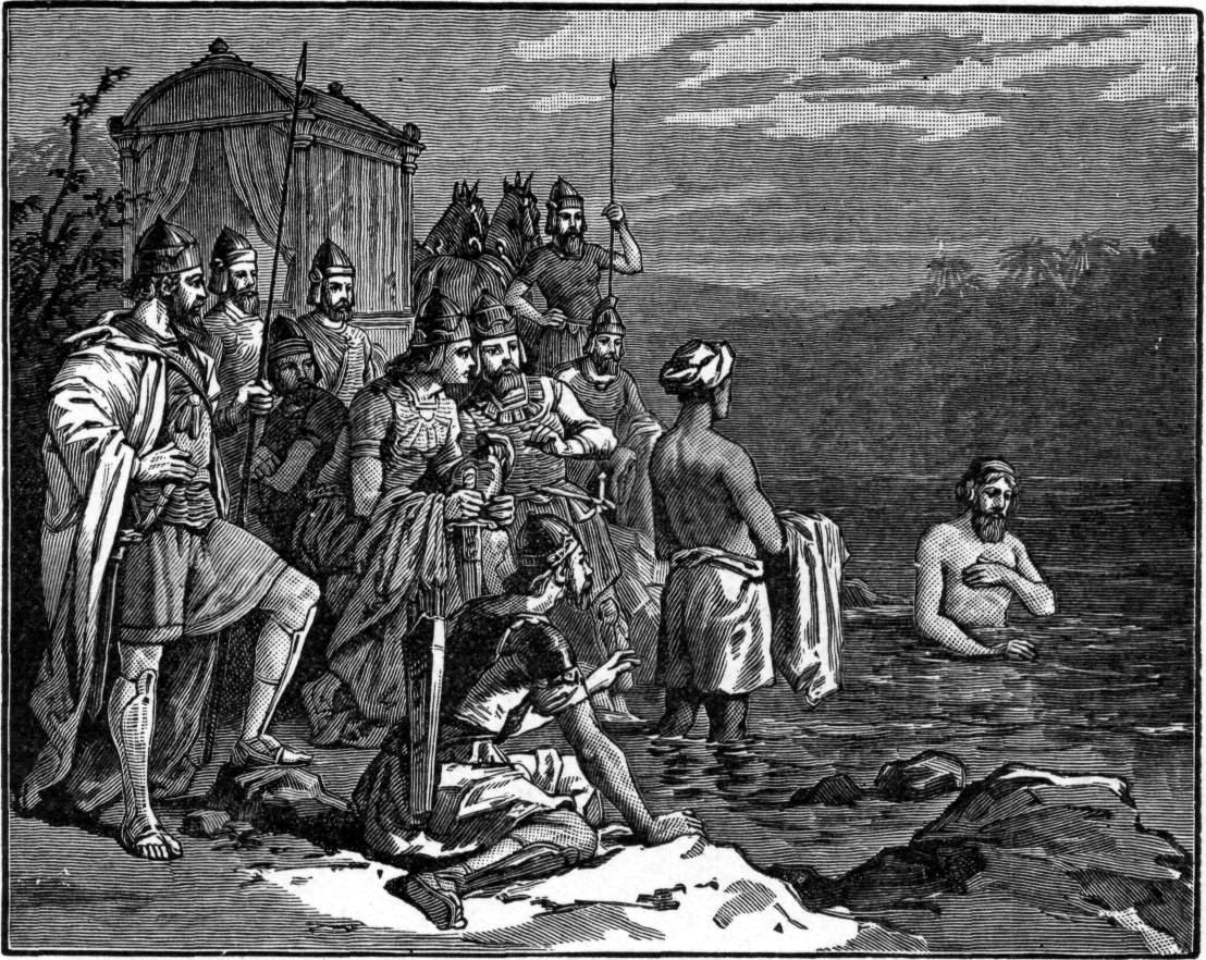 Naaman in Jordan River (2King 5:14)